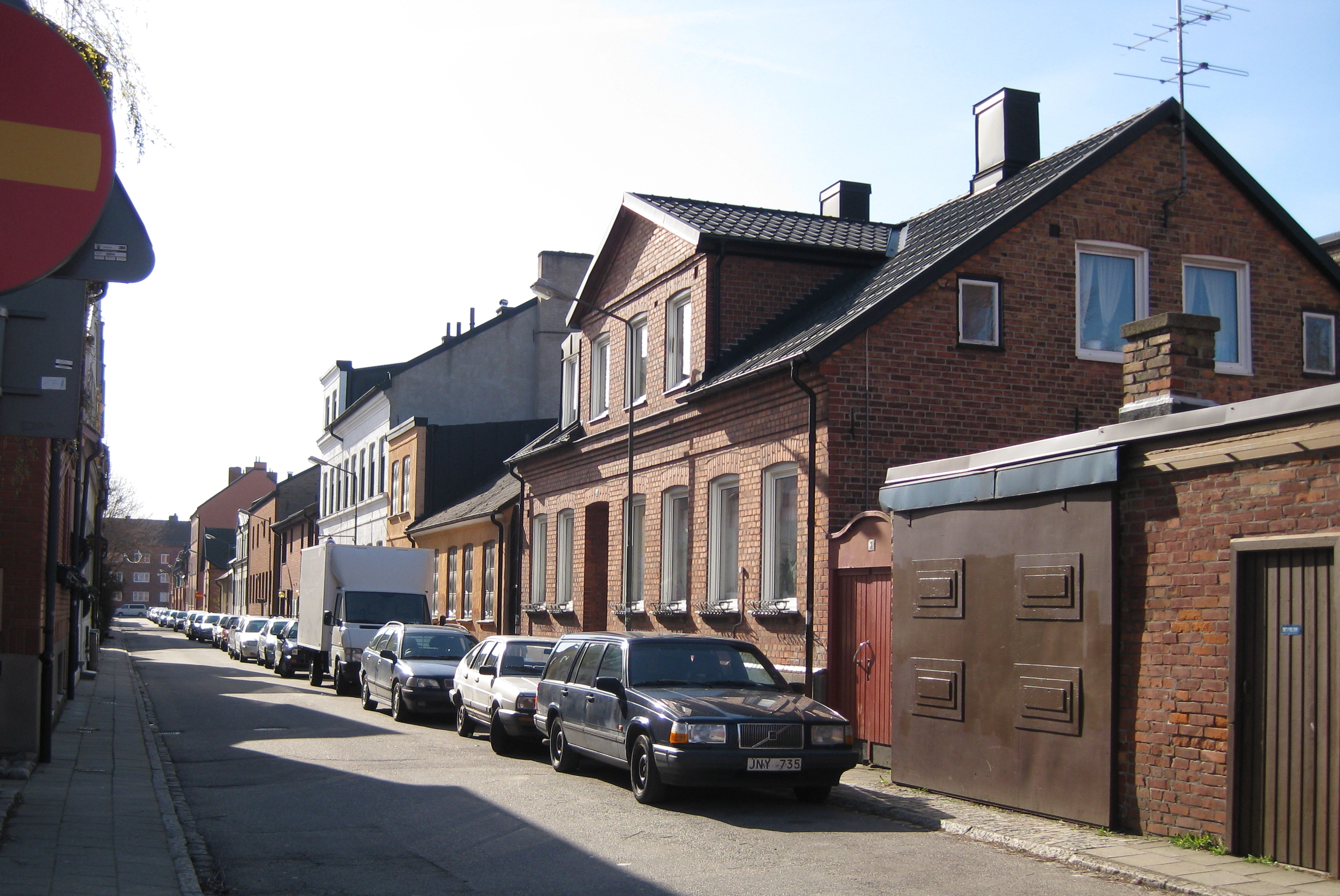 Street in Sofielund, Malmö